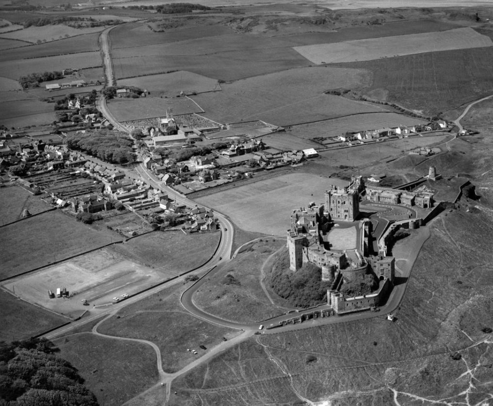 Looking west towards the village and St Aidan's, the 13th century parish church. The castle was extensively restored by Lord Armstrong at the end of the 19th century. Reference: TWAS: DT.TUR.7.54 (Copyright) We're happy for you to share this digital image within the spirit of The Commons. Please cite 'Tyne & Wear Archives & Museums' when reusing. Certain restrictions on high quality reproductions and commercial use of the original physical version apply though; if you're unsure please . To purchase a hi-res copy please quoting the title and reference number.